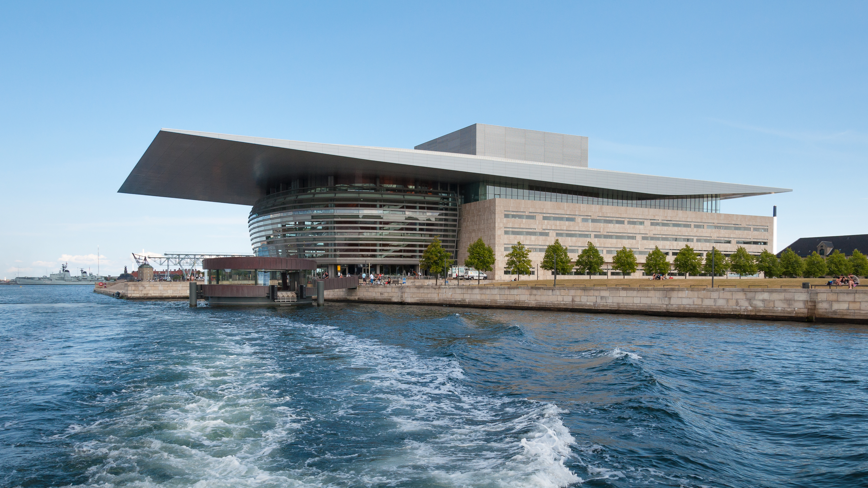 The Copenhagen Opera House (Operaen) in Copenhagen Holmen, Denmark.